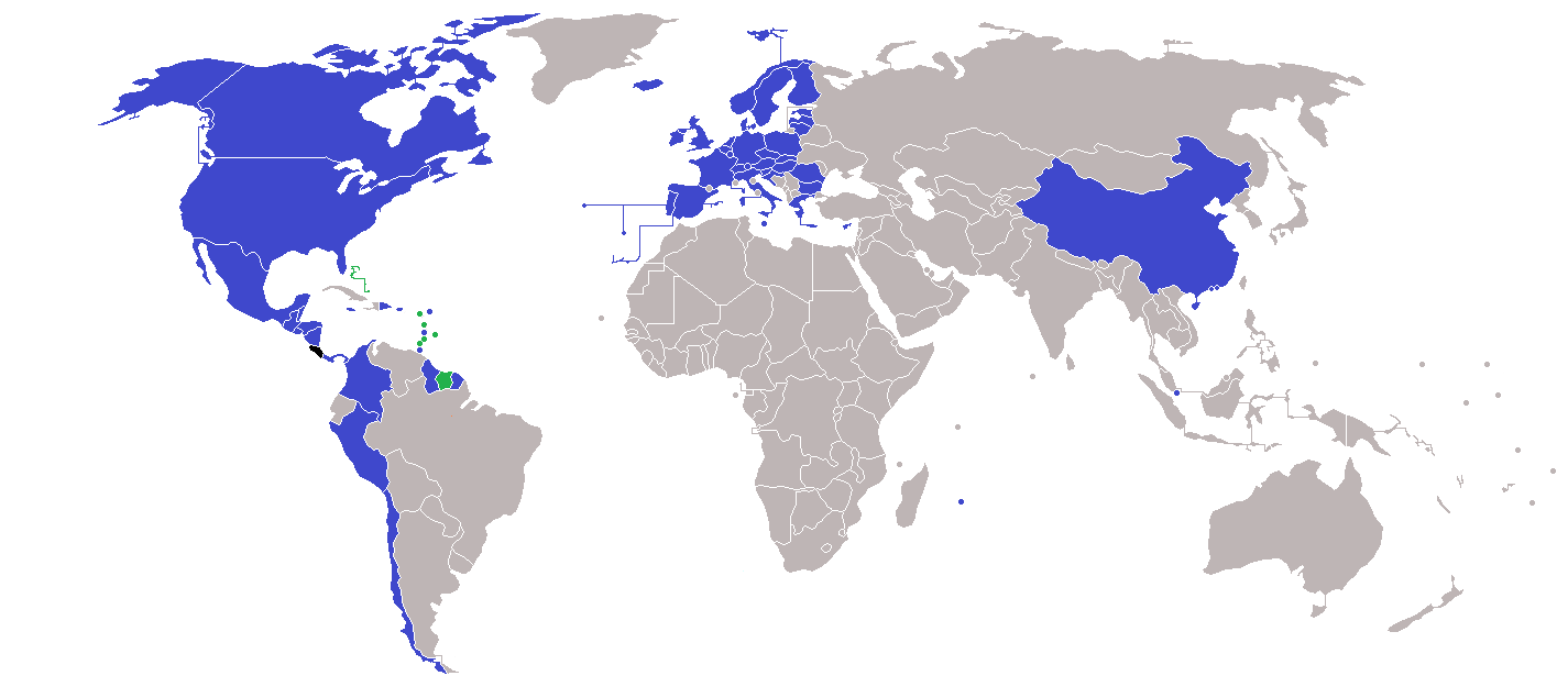 Costa Rica Free Trade Agreements Black = Costa Rica Green = Current FTAs Dark blue = Signed FTAs, but not ratified